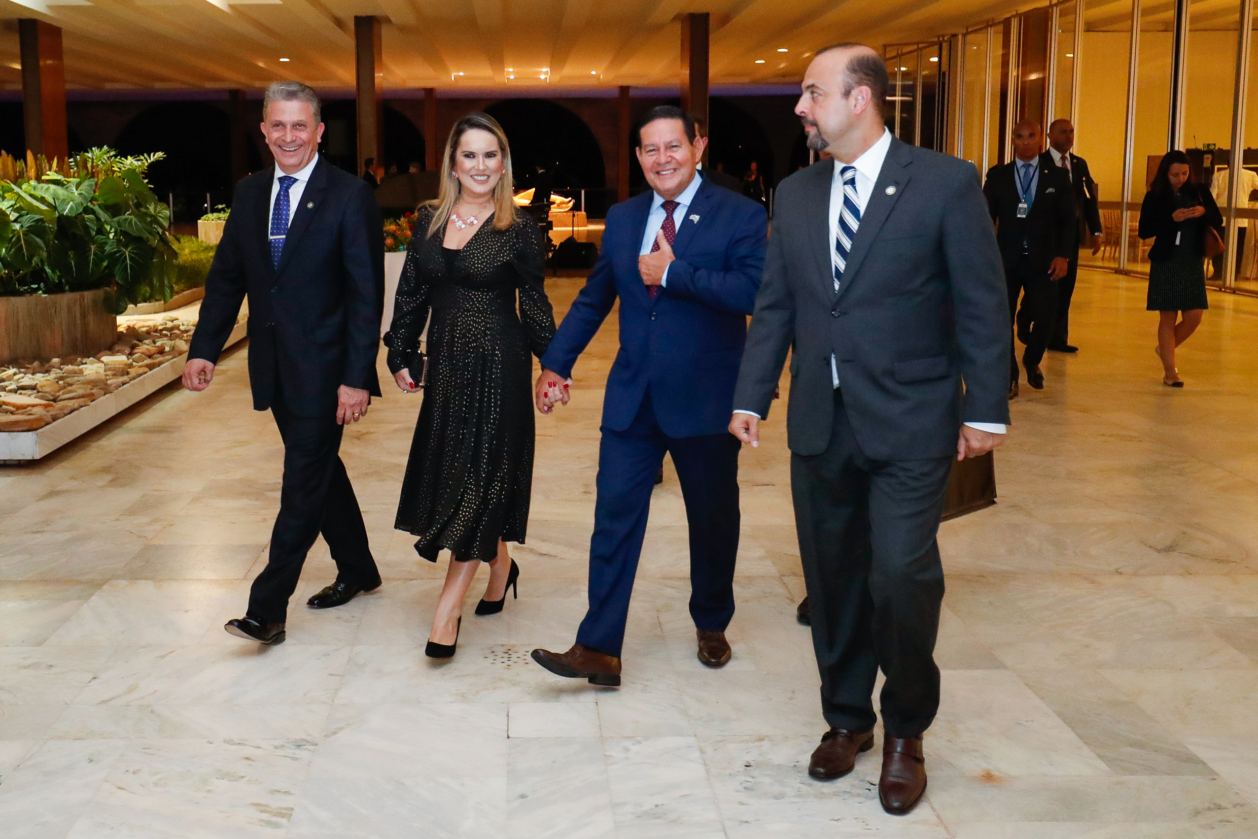 (Brasília - DF, 13/11/2019) Apresentação Cultural. Foto: Alan Santos/PR